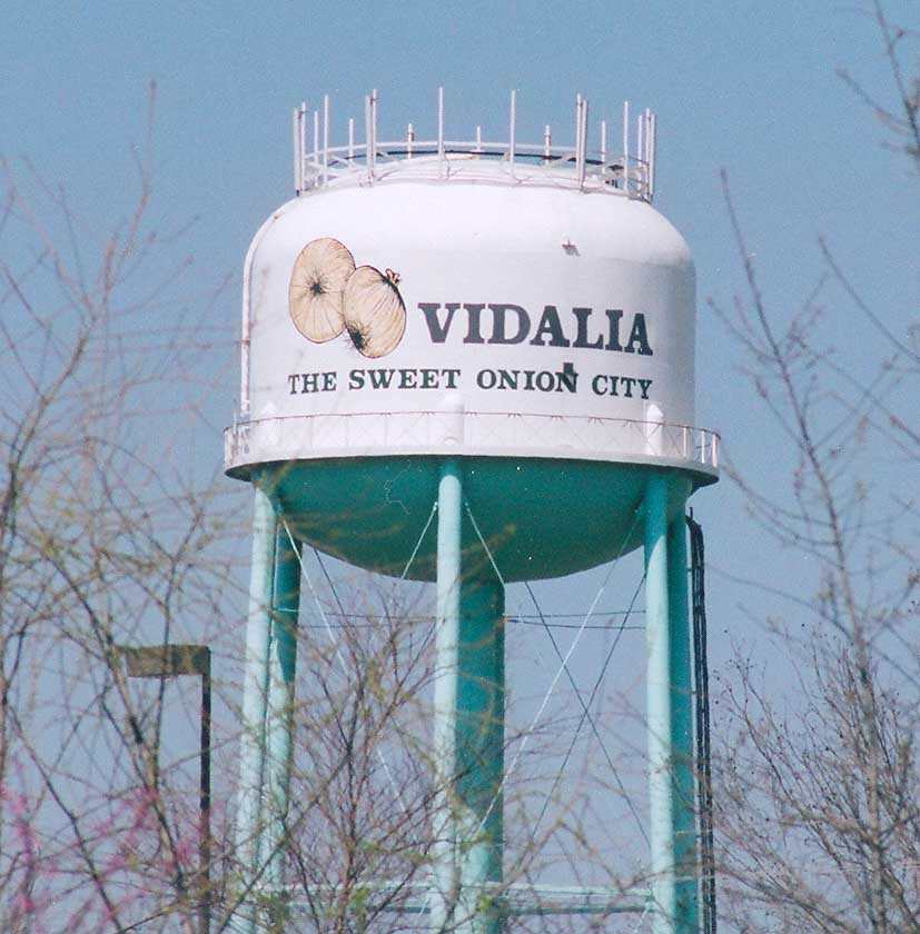 The water tower of Vidalia, with its crown of antennae. Donated to public domain by photographer, user:Geogre. Photo taken on March 12, 2005.